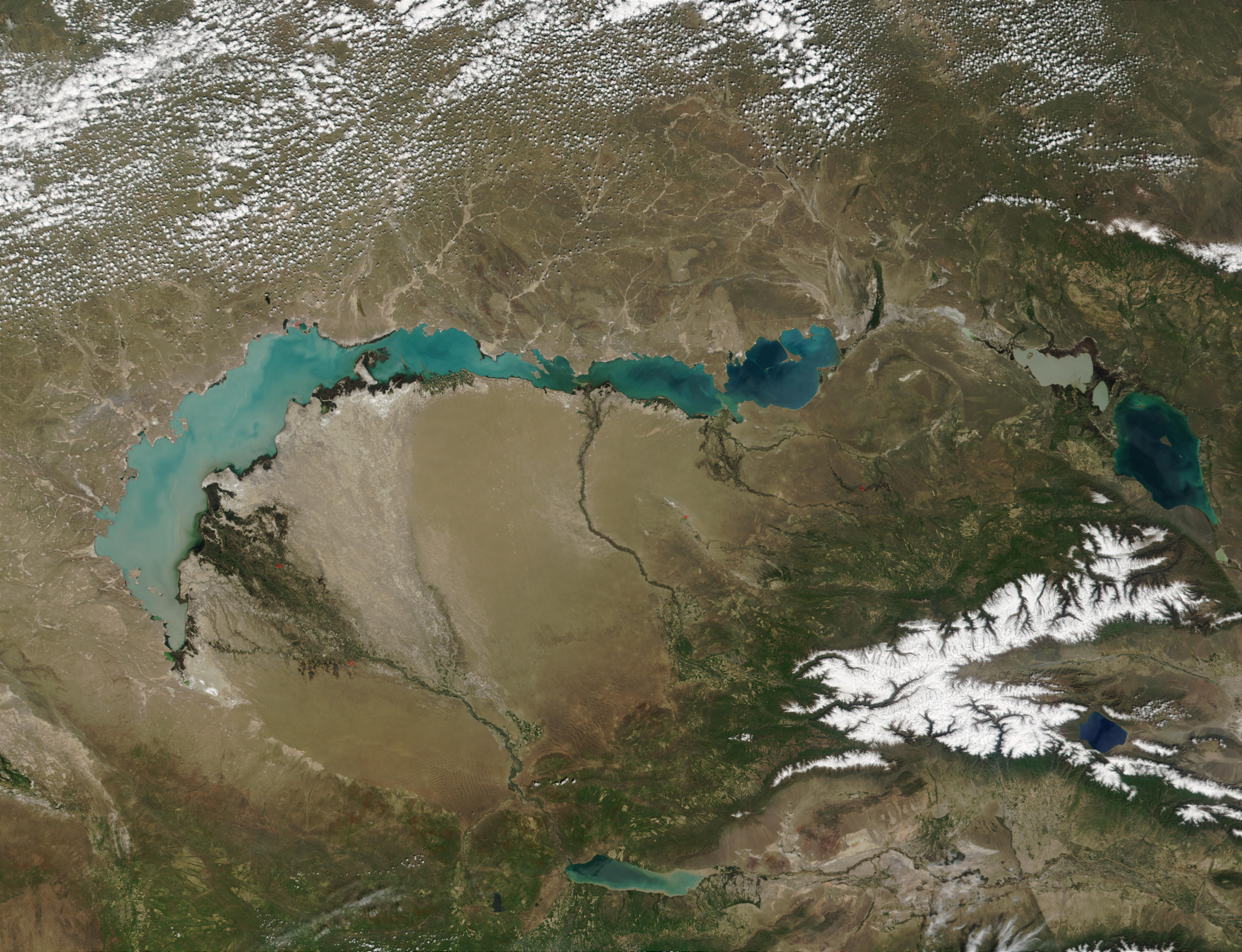 Lake Balkhash and the surrounding area viewed from space